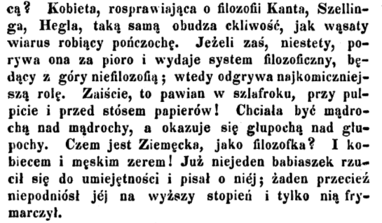 Fragment of Bronisław Trentowski's Chowanna, vol. 2, Poznań 1846, p. 503